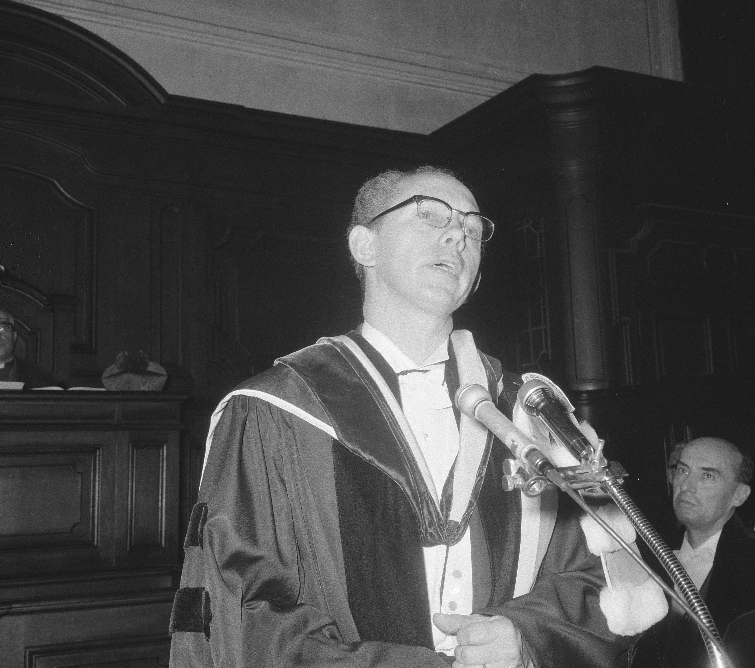 Clyde Summers, receiving an honorary doctorate from Catholic University Leuven, 2 Febr. 1966